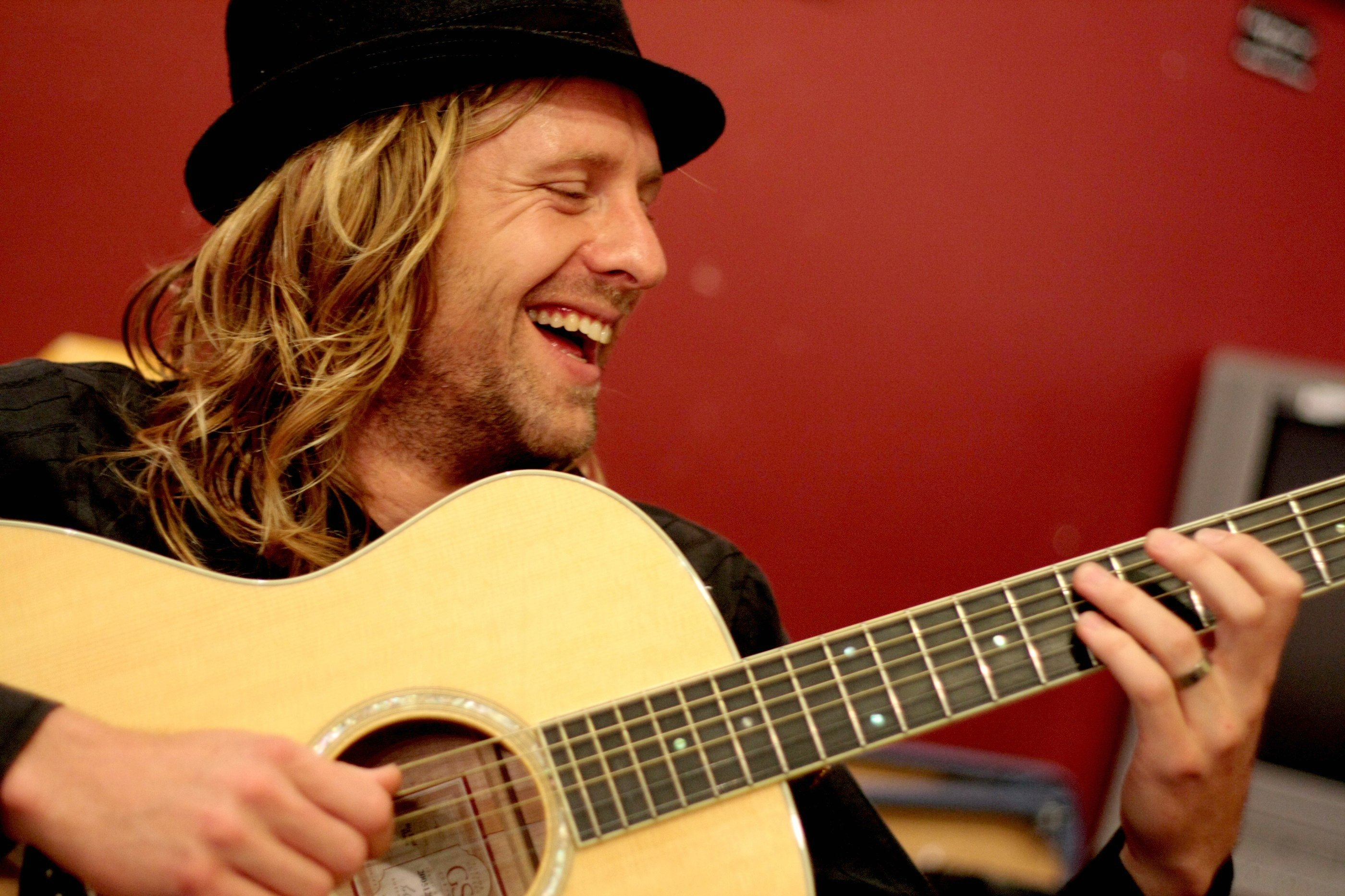 Jon Foreman playing an acoustic after-show concert in April 2008.